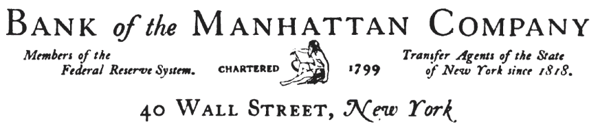 Bank of the New York Company (predecessor of Chase Manhattan Bank) masthead ca. 1922